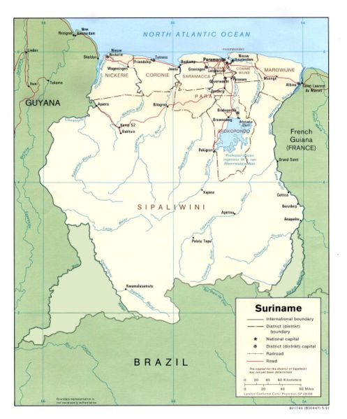 Suriname Map (based on CIA map), including disputed terrirories